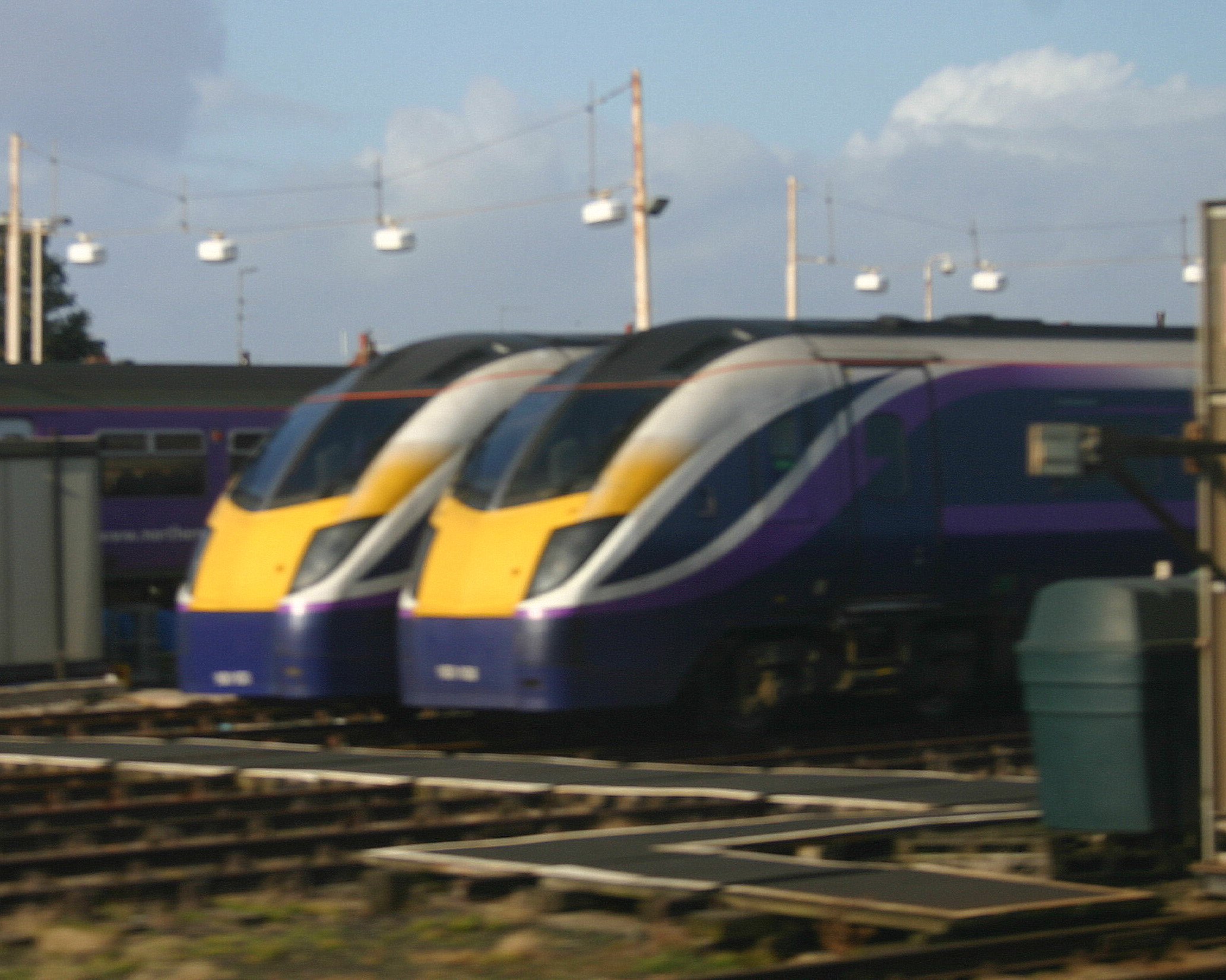 Two Northern-liveried Class 180 trains in sidings outside Blackpool North station in October 2009.